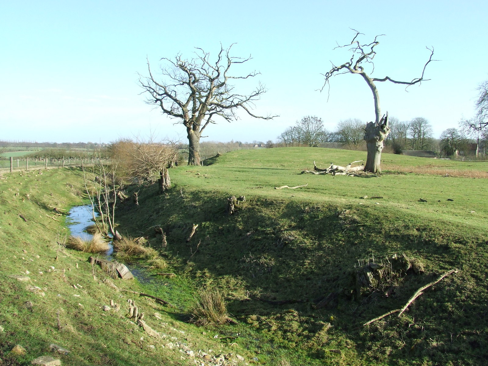 Ditch of Denham Castle